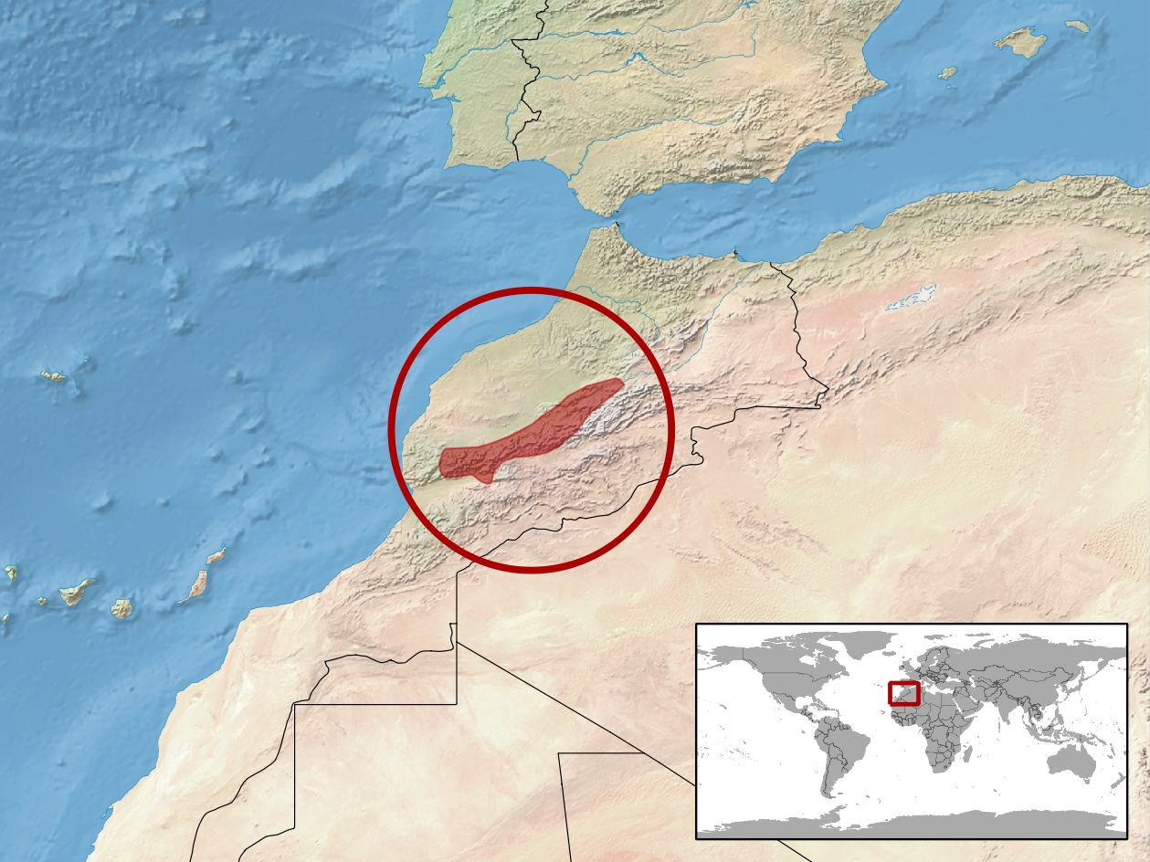 geographic distribution of Vipera monticola (Native: Morocco)